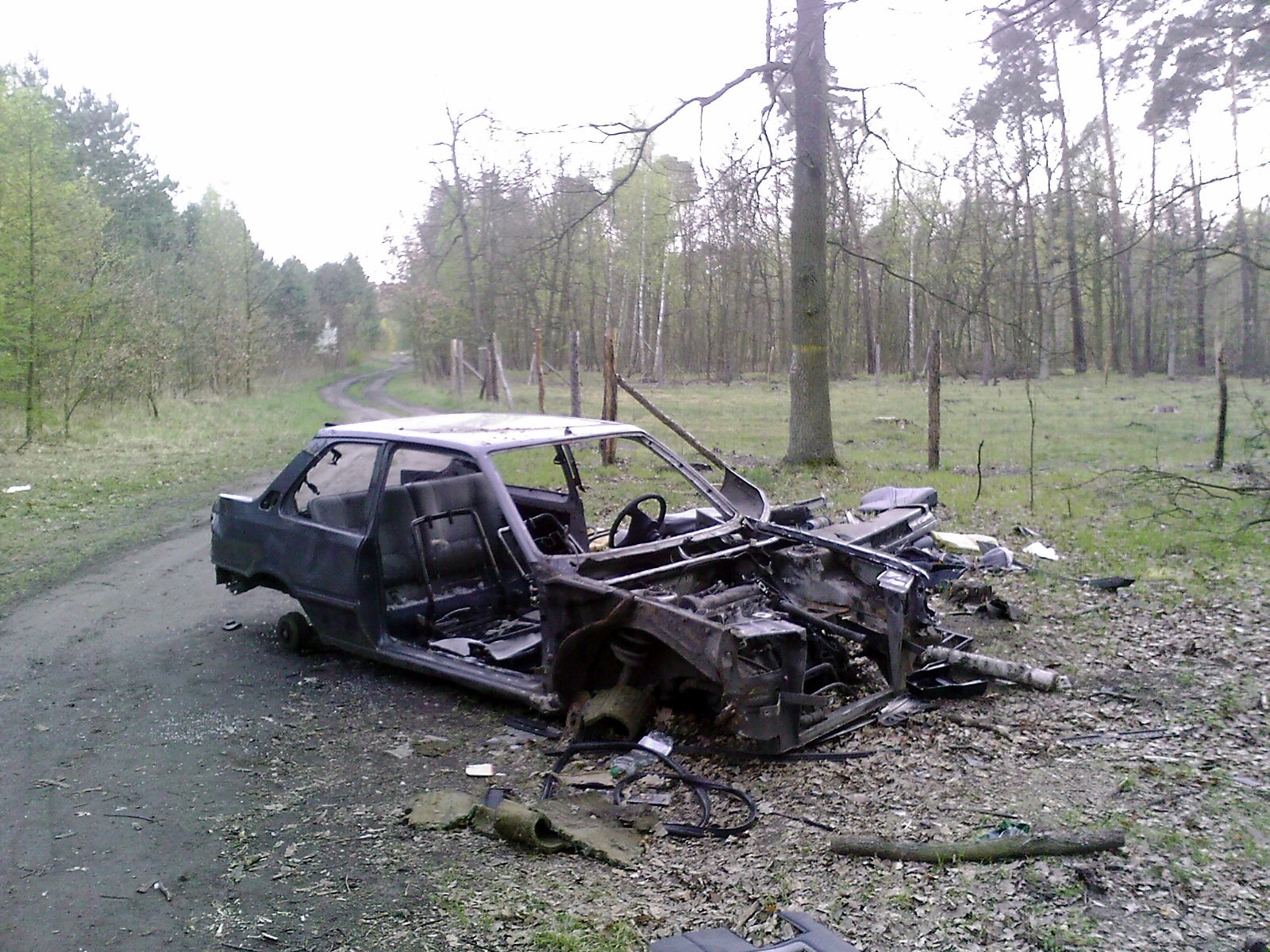 Peugeot banger in forest near Bydgoszcz, Poland.